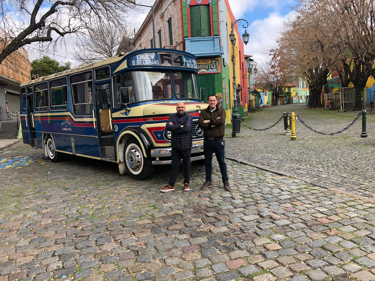 Reliquia Vuelta de Rocha S.A.T.C.I.